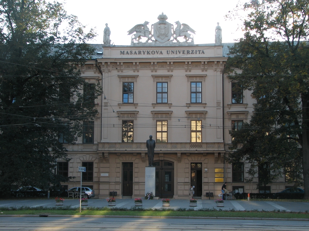 Faculty of Medicine - Masaryk University, Brno